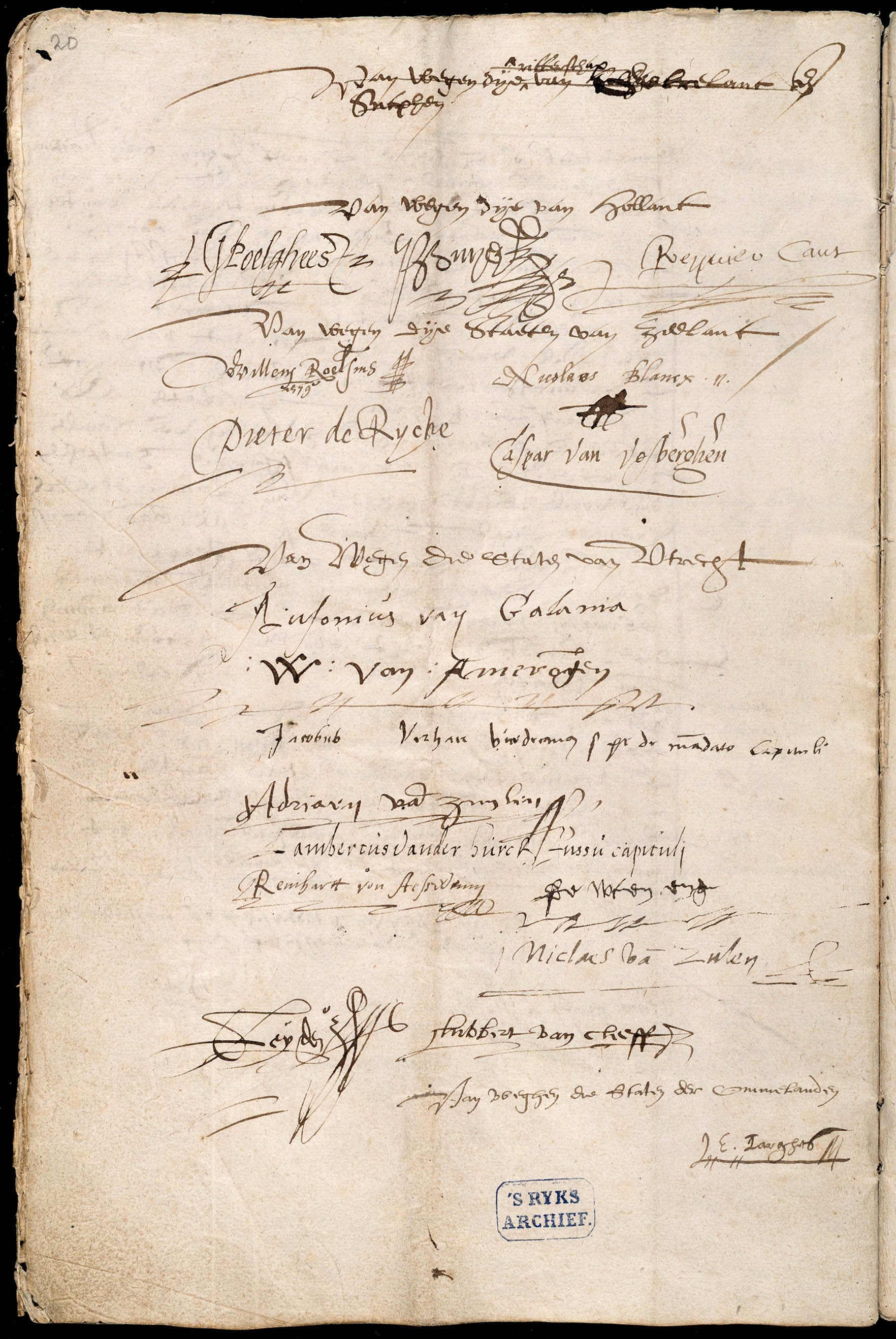 Last page of the Union of Utrecht. The first 6 lines contains the signs of the representatives of Holland: J. van Poelgeest, Reinier van Cant, Willem Roessens, Nicolaas Blanx, Pieter de Rijcke and Caspar van Vosberge.